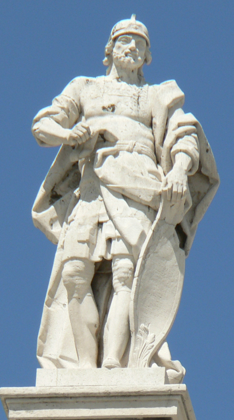 Statue of Alarico II, Visigoth king, on the balustrade of the Royal Palace of Madrid.